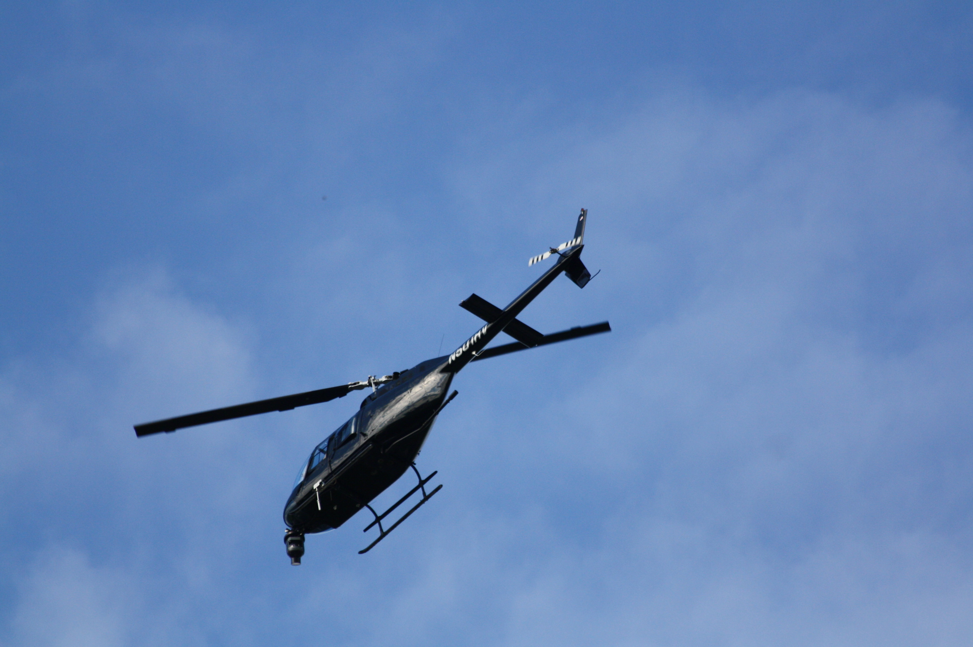 A helicopter taping at Road America for the ESPN coverage of the track's first NASCAR Nationwide Series race in 2010.